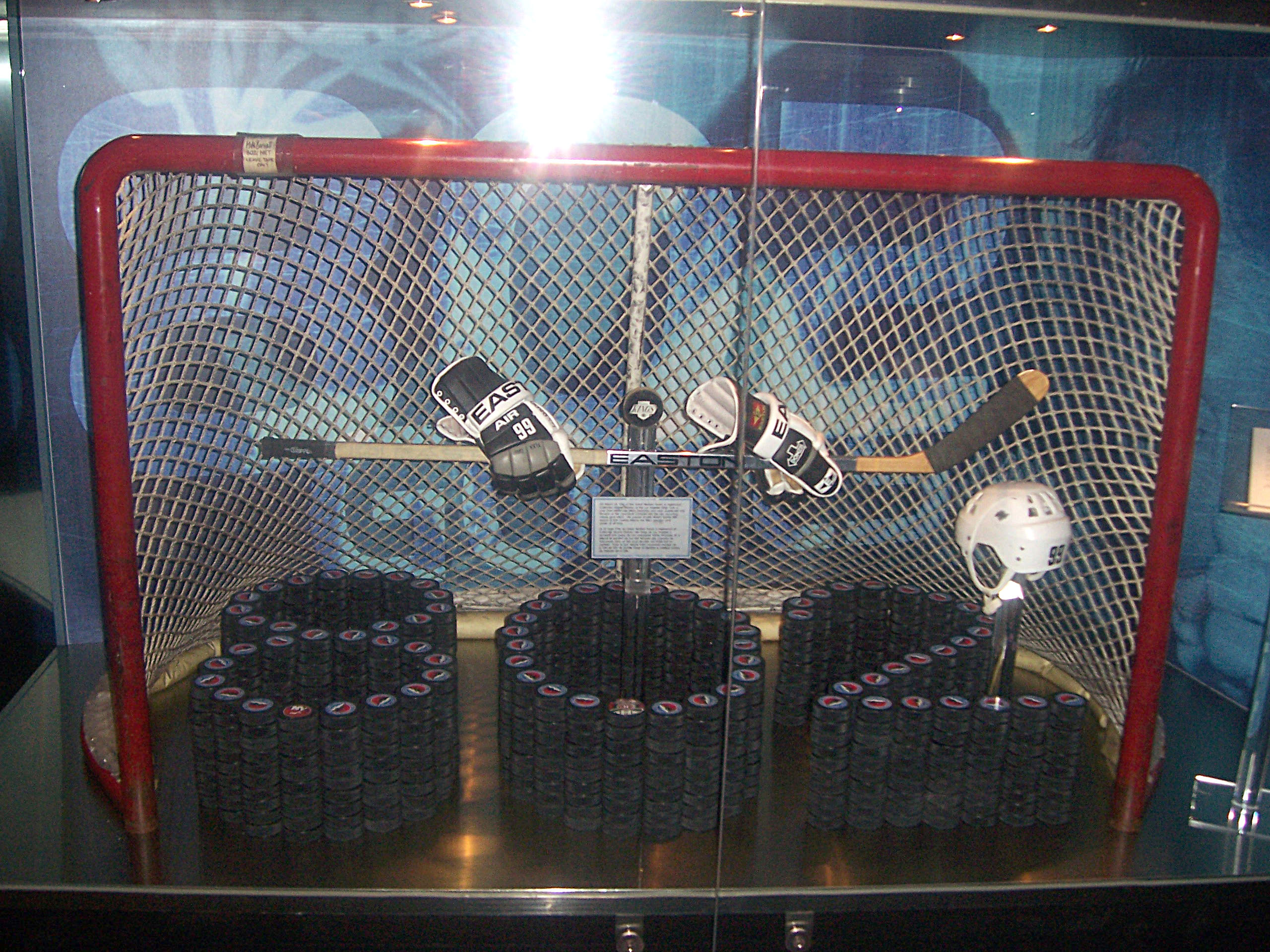 Piece made in commemoration of Wayne's Gretzky's 802nd goal, now in permanent display in the Hockey Hall of Fame.